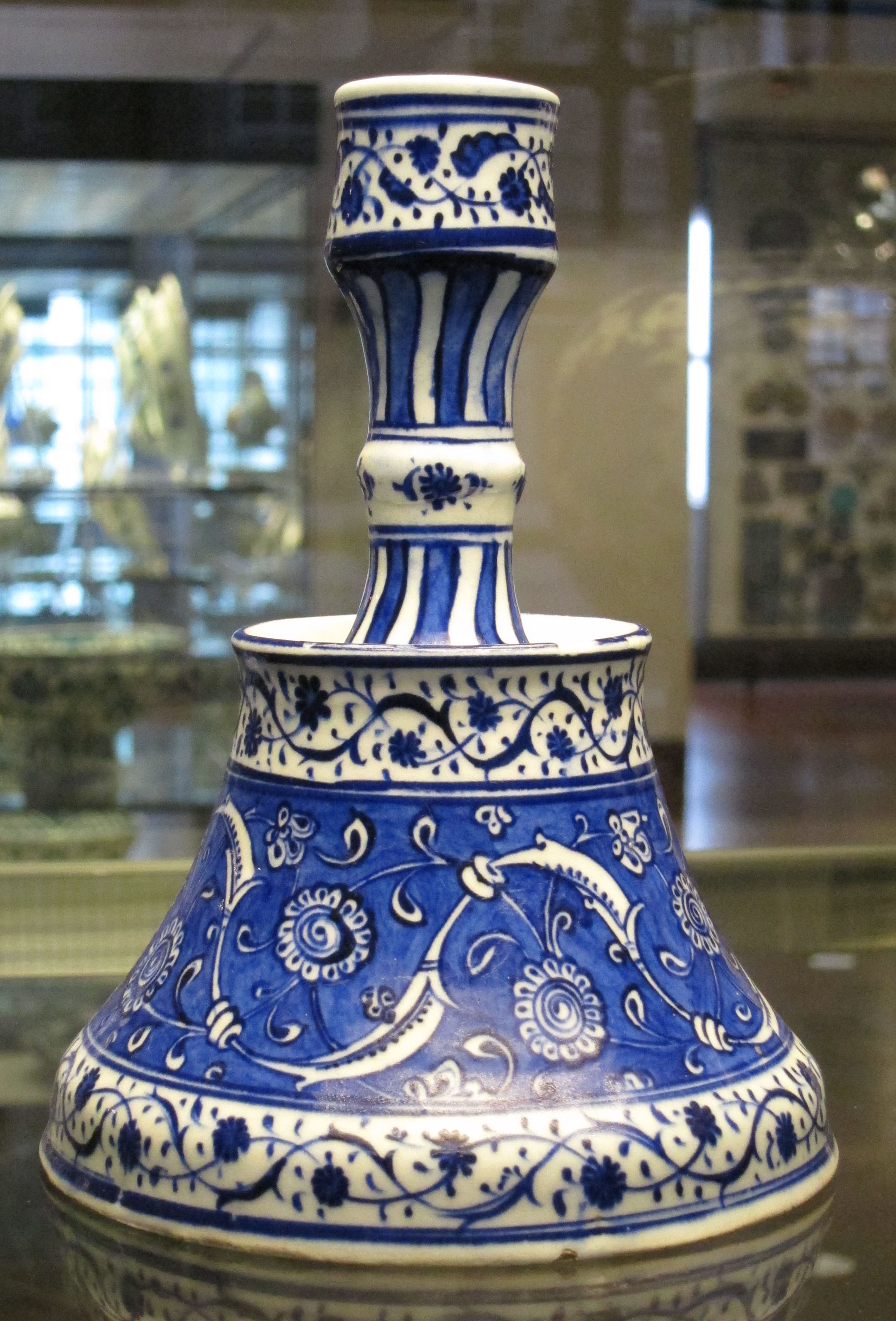 Iznik candlestick.